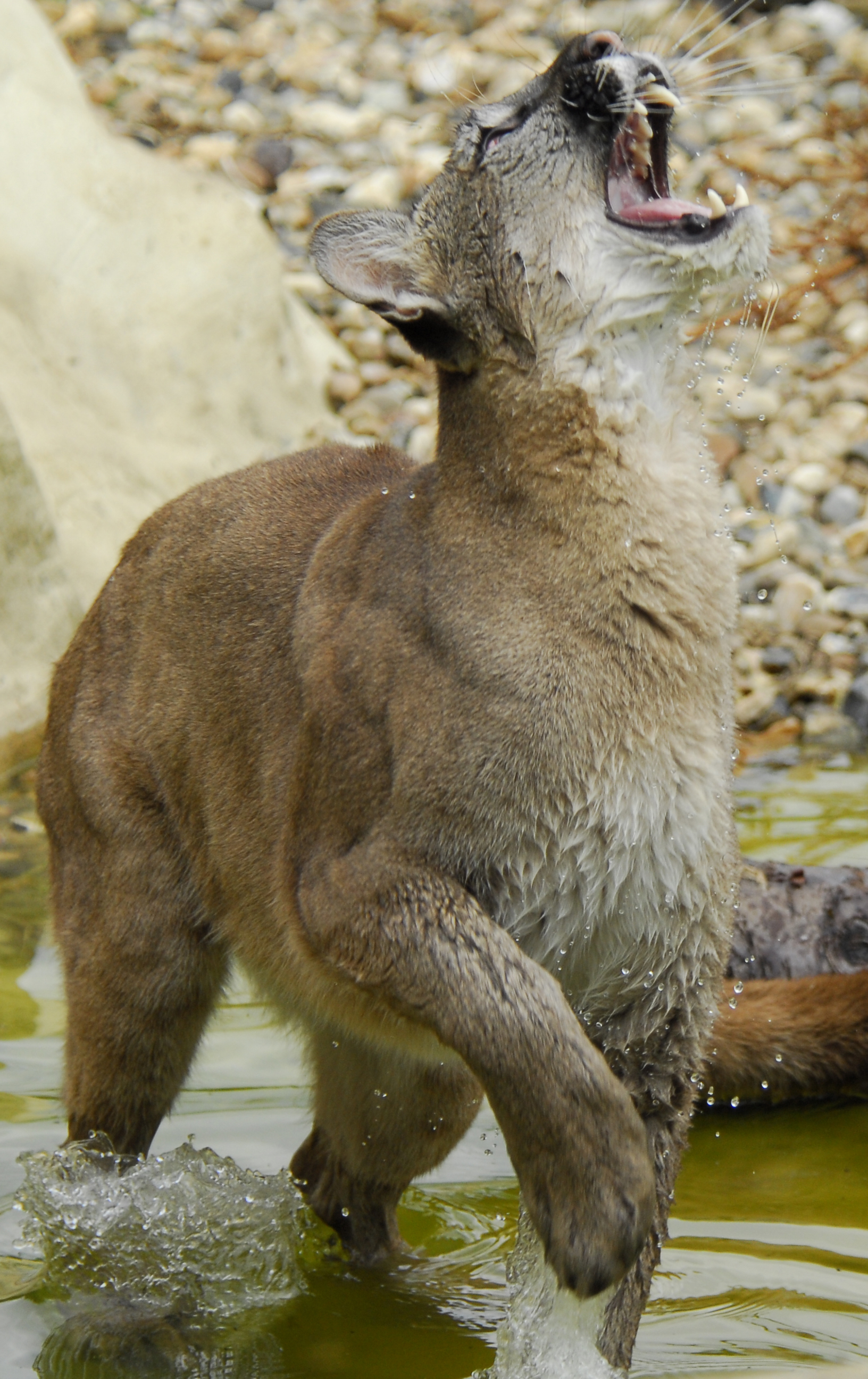 Puma jumping for food in water, Wildlife Heritage Foundation, Kent, UK.